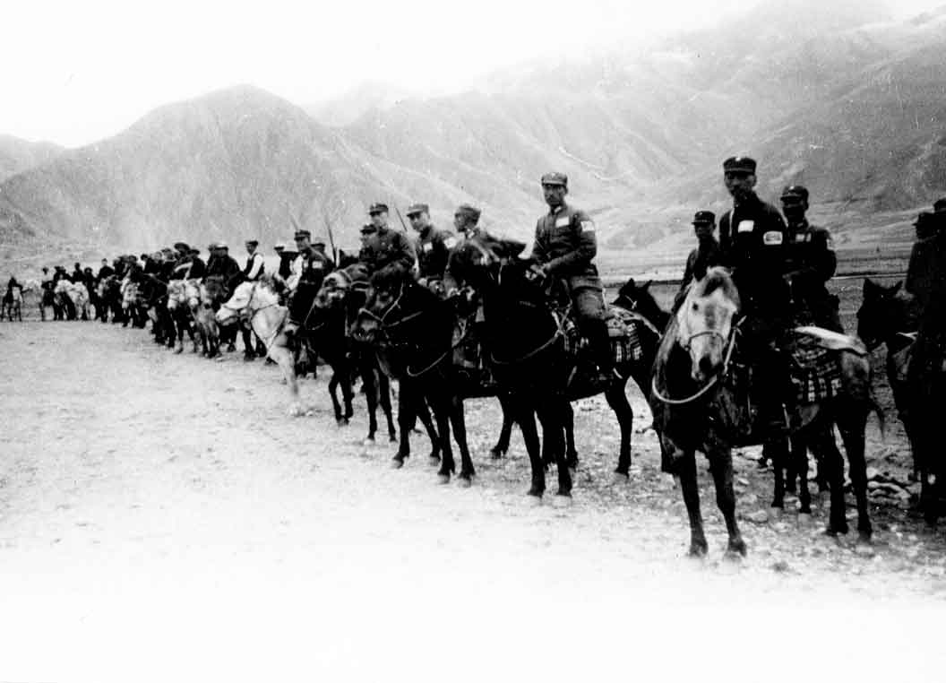 NRA (or some warlord's) cavalry.